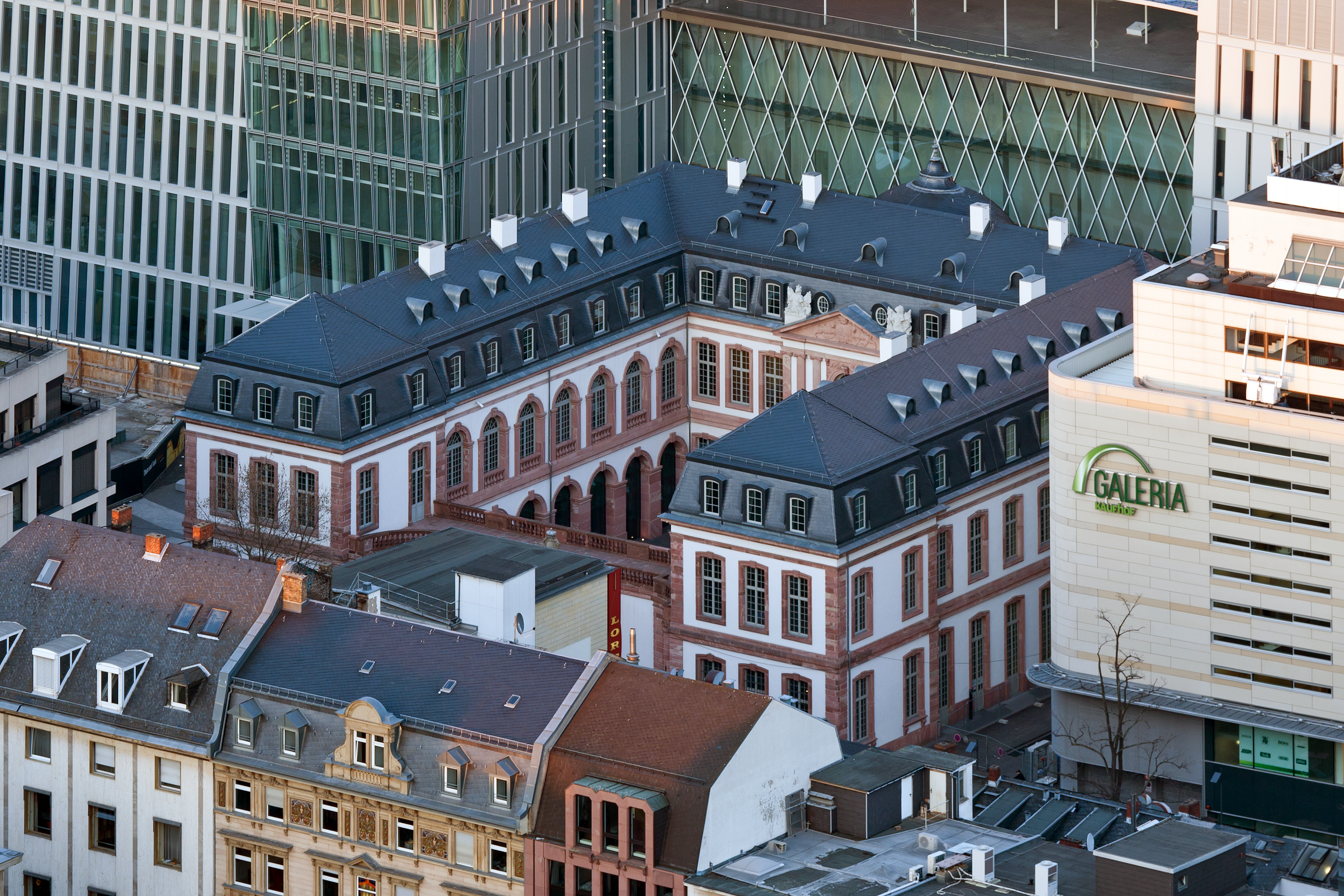 Frankfurt on the Main: Palais Thurn und Taxis as seen from the Maintower